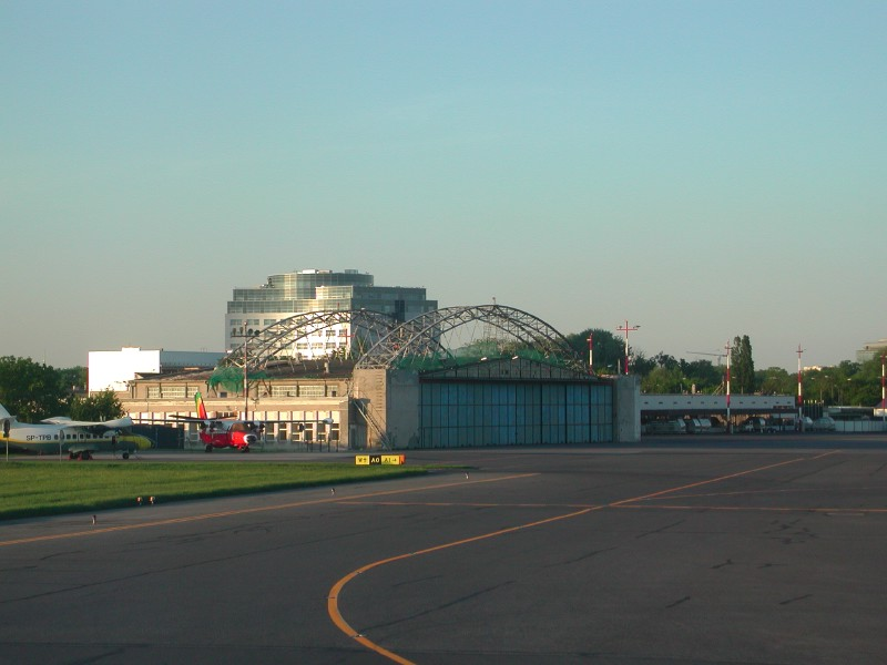 Warsaw Chopin Airport from Runway. Taken by Daveblack